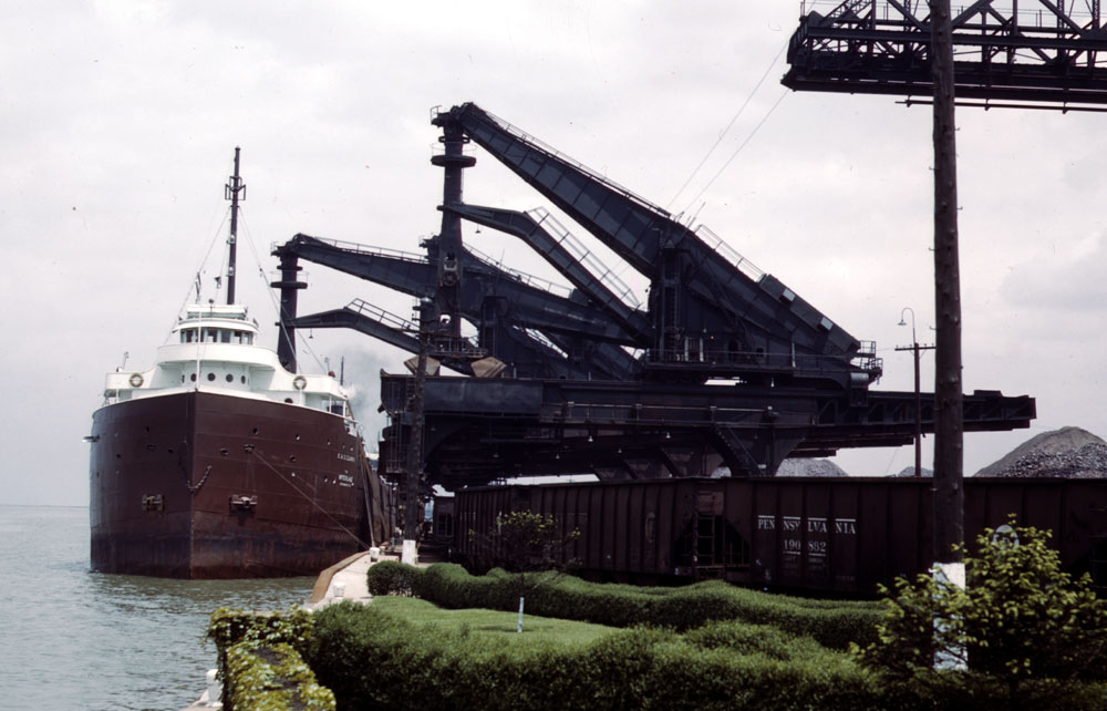 Hulett iron ore unloaders at the Pennsylvania Railroad ore docks at Cleveland, May 1943. Photo part of the Farm Security Administration - Office of War Information Collection at the Library of Congress. (Ship is E.A.S. Clarke of the Interlake Steamship Co.)